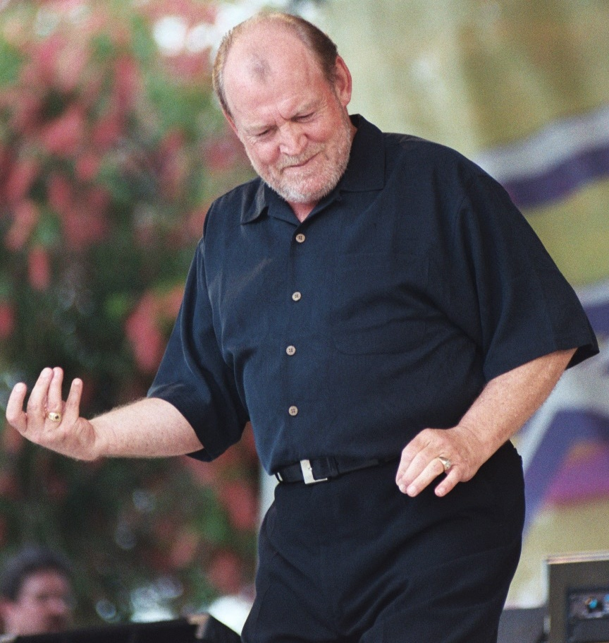 Joe Cocker performing at Gulfstream Park in Hallandale, FL.